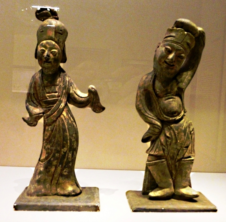 I took this photo in 2011 at the National Museum in Beijing